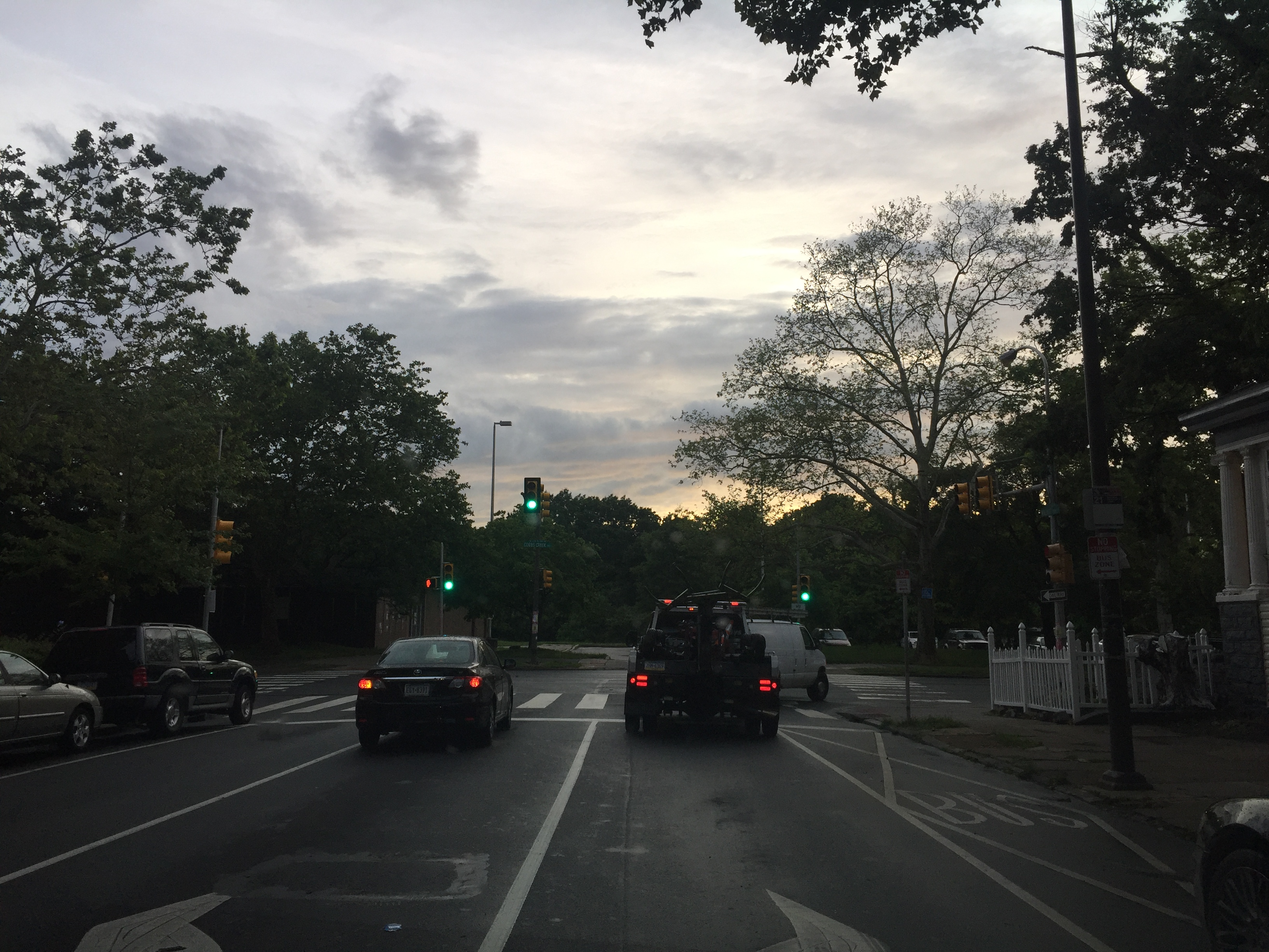 End of Walnut